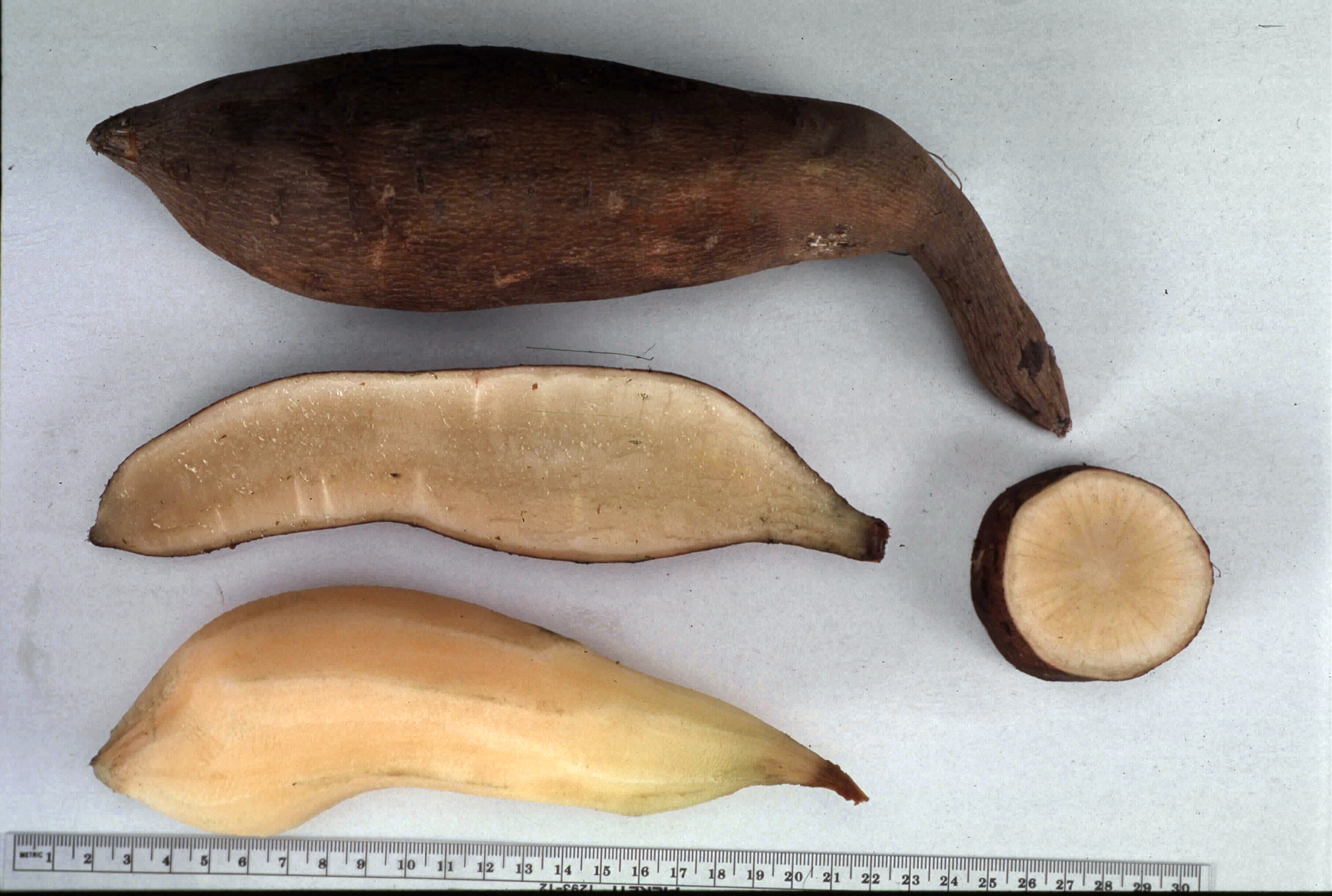 Yacon root